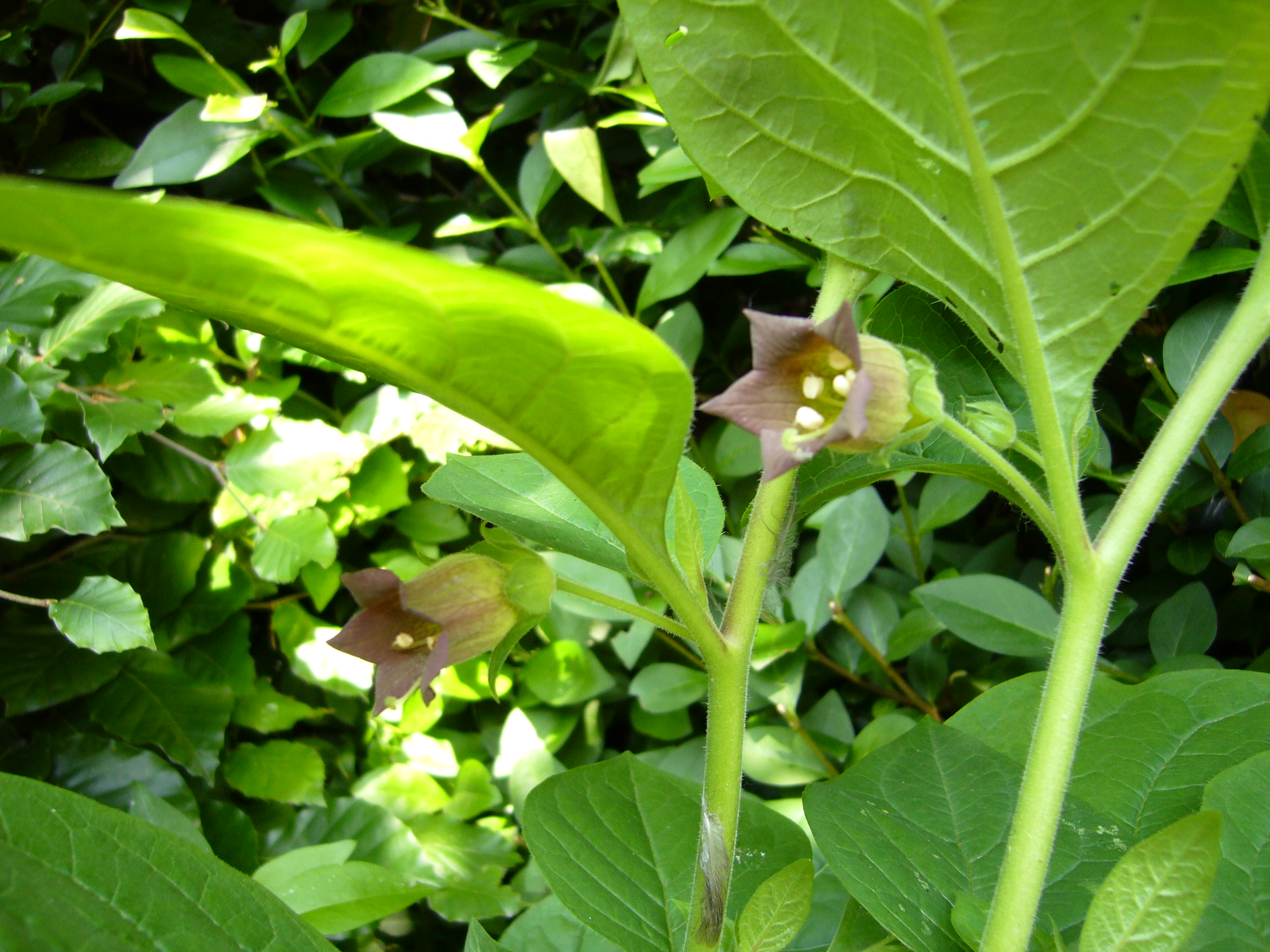 The flowers of Atropa belladonna